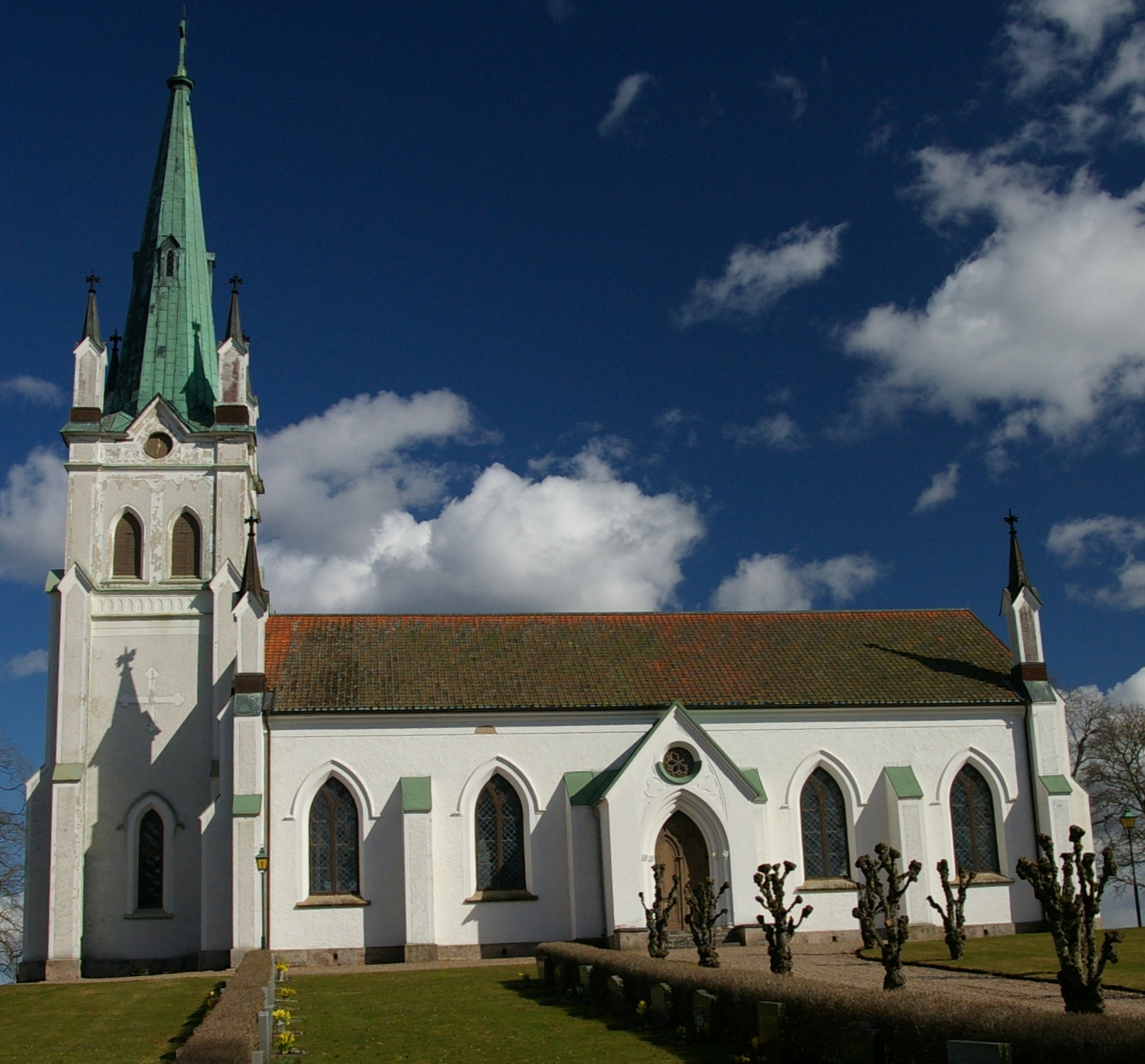 The church of Dala in Västergötland, Sweden.